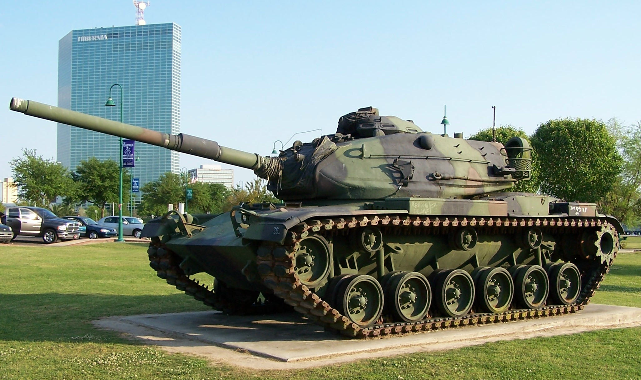 Picture of an American M60A3 tank in Lake Charles, Louisiana.